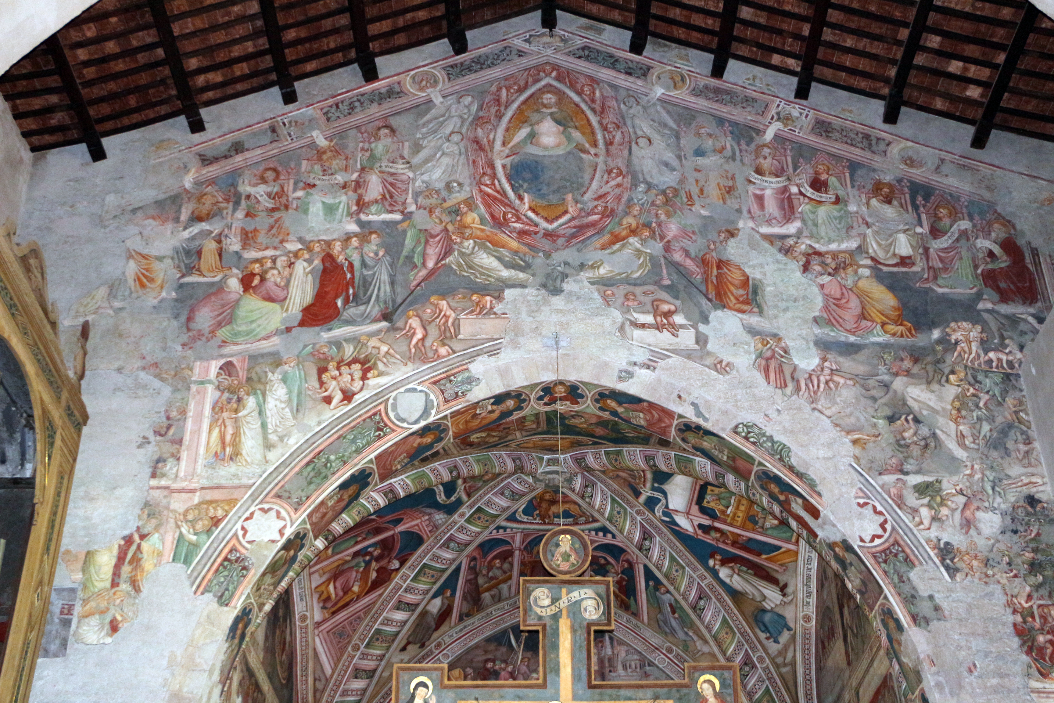 Stories of Saint Augustine by Ottaviano Nelli